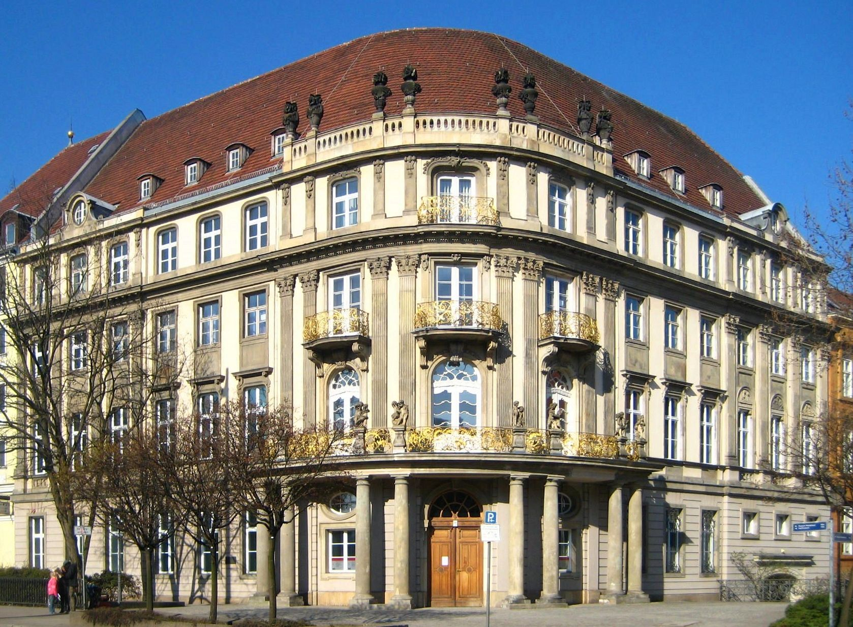 The Palais Ephraim at the corner of Poststraße and Mühlendamm in the Nikolaiviertel in Berlin-Mitte. The original Rokoko mansion was built 1762-1766 by Friedrich Wilhelm Diterichs for the banker Veitel Ephraim and was extended by Hermann Blankenstein from 1892 to 1895. It was demolished in 1936 for the construction of a new bridge at Mühlendamm. The new building is a reconstruction (using original parts) dating back to 1985-1987. It is now part of the Stiftung Berliner Stadtmuseum (Foundation City Museum Berlin) and has been designated as a historic landmark.